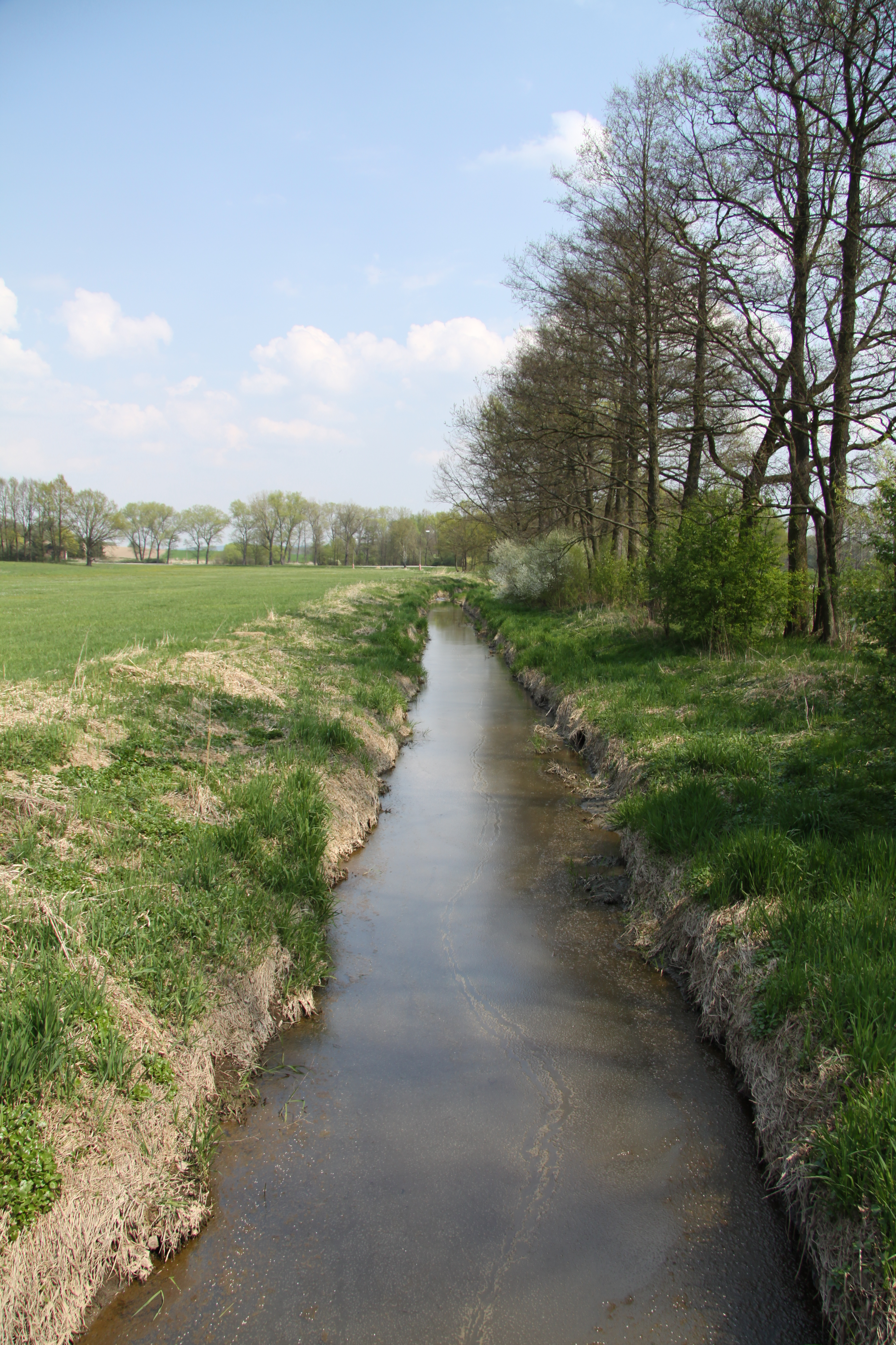 Radomilický stream near Záblatíčko village, České Budějovice District, Czech Republic